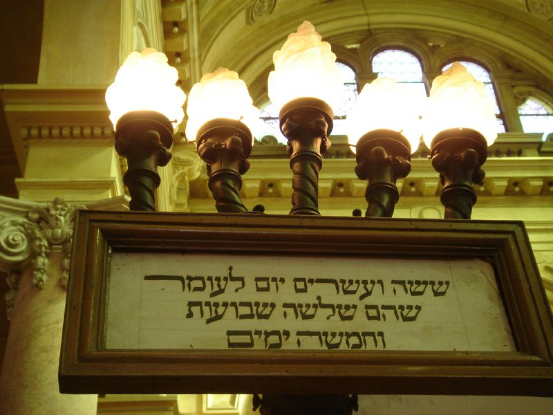 Jewish community of Egypt. Egypt's Jewish community which numbered 70,000-90,000 at its height (in 1947) now only has a few tens of Jews. The community looks after the cemeteries and the remaining synagogues, but needs moral and financial support.